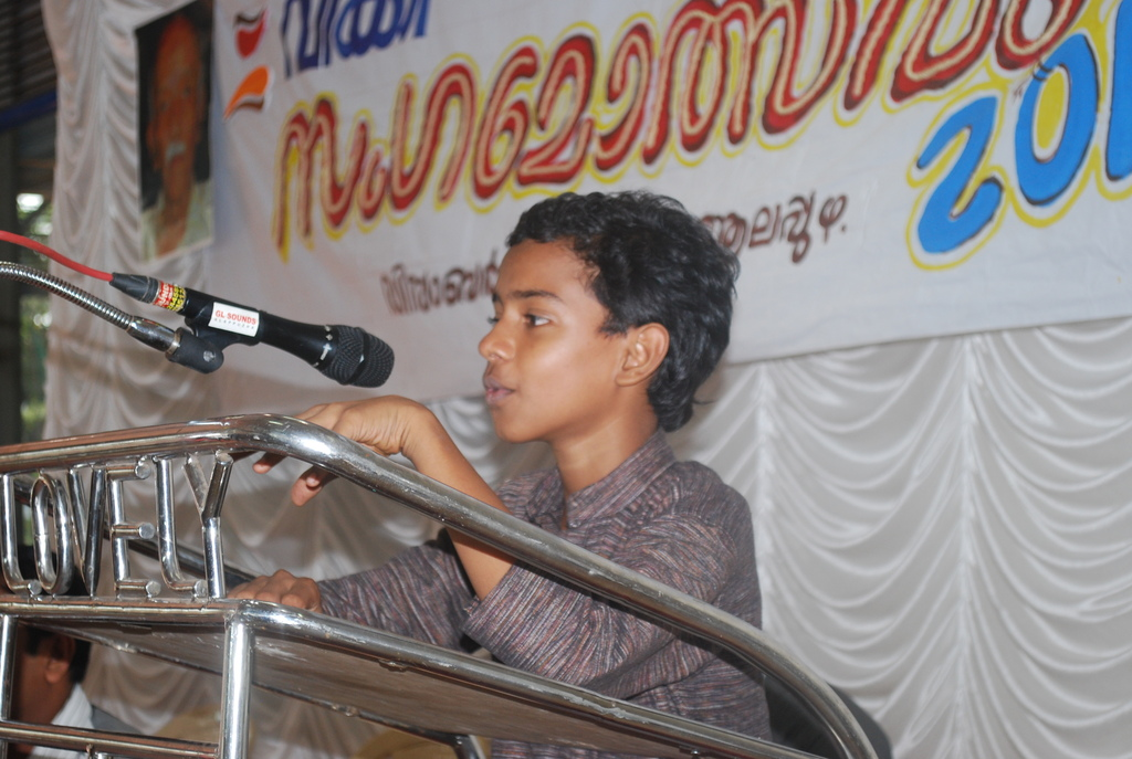 Minon, national film award winner 2013 inagurating student wiki sangamolsavam 2013 at Allepy